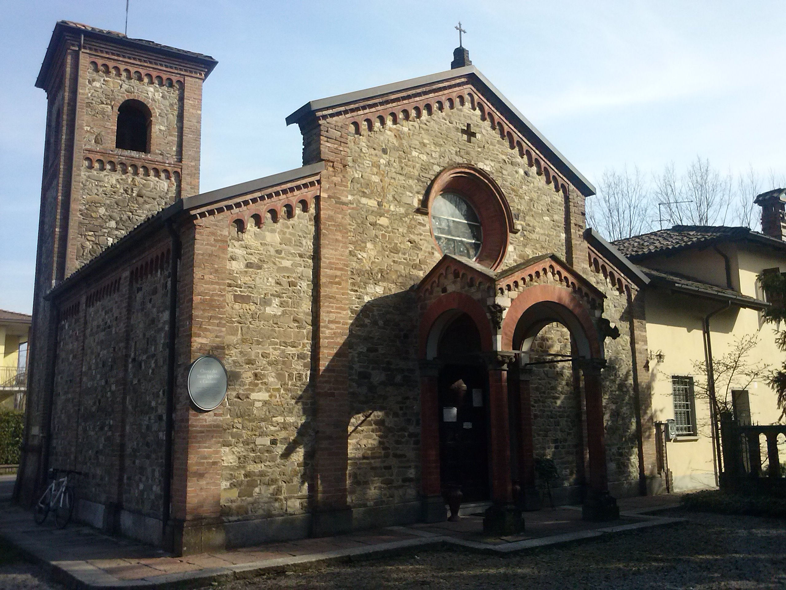 Church of S.Ippolito and Cassiano, located in Maiano, municipality of Podenzano (Piacenza, Italy)